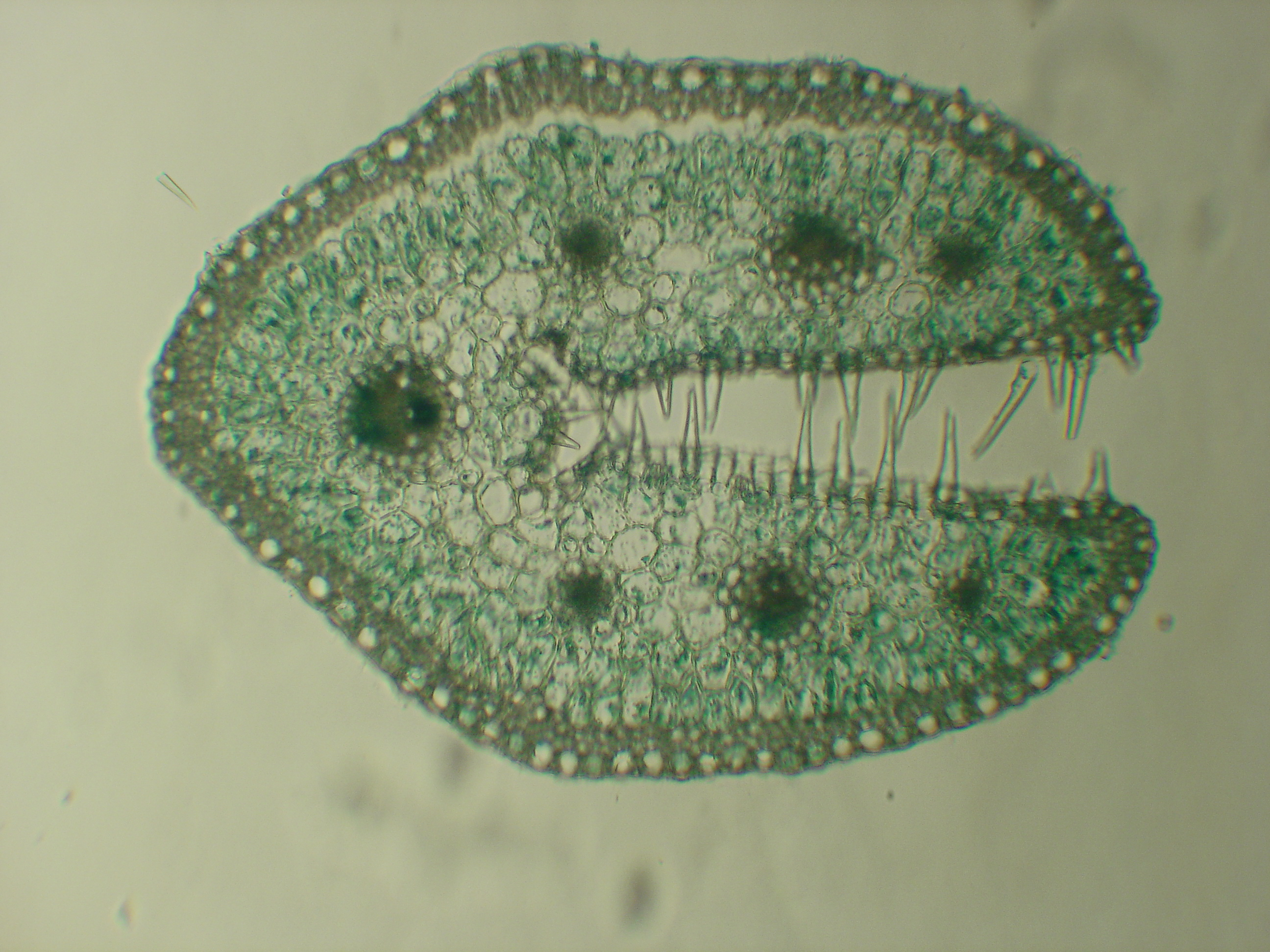 Microscopical view of a cross section of a Festuca ovina sprout. Magnification 125x.